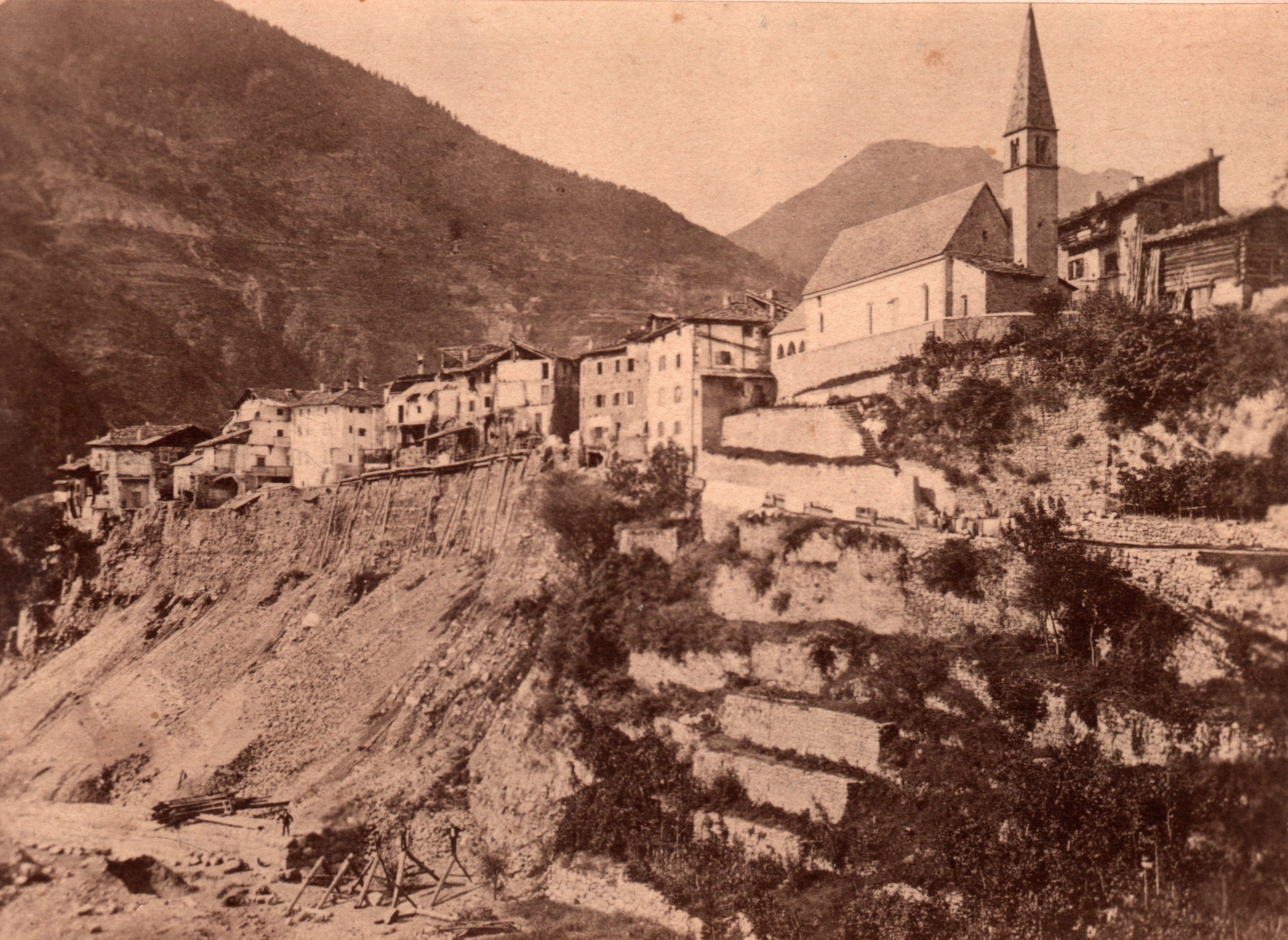 Piazzo (Segonzano, Trentino, Italy), 1883 or 1884, repair works for a landslide that struck the town in september 1882